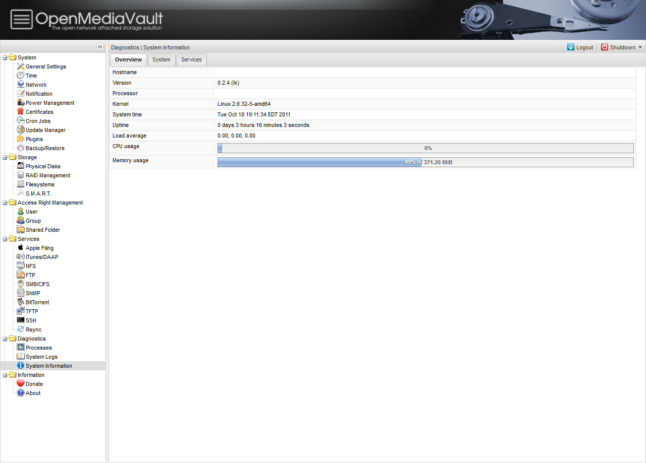 Overview of the GUI of OpenMediaVault